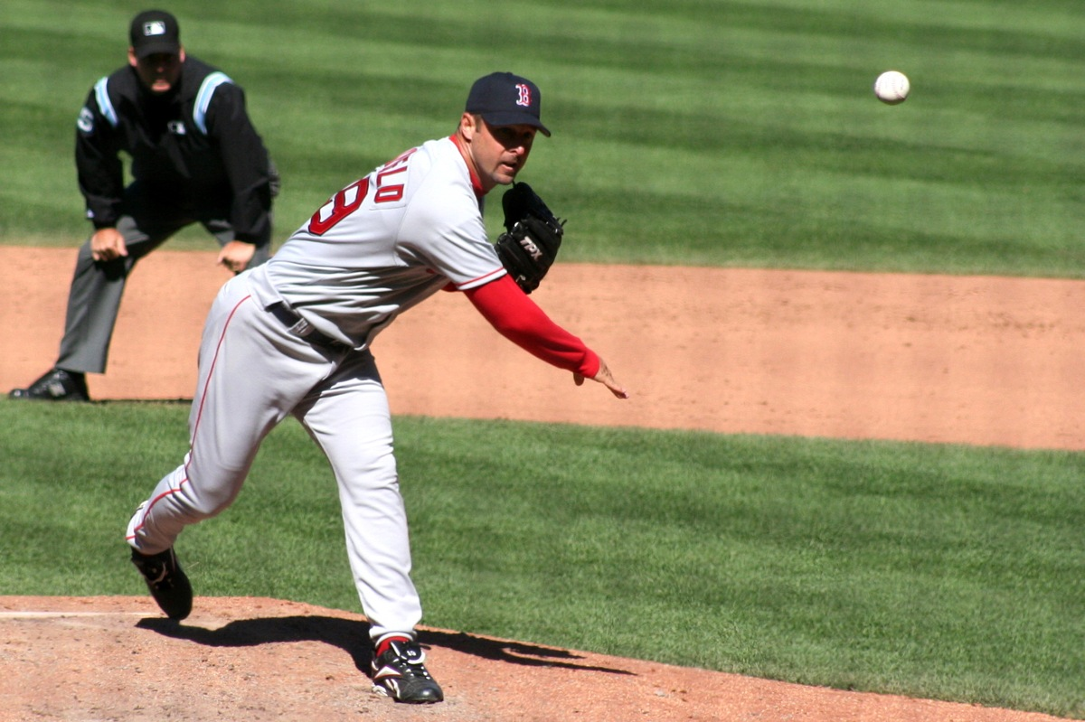 Tim Wakefield pitching in a game